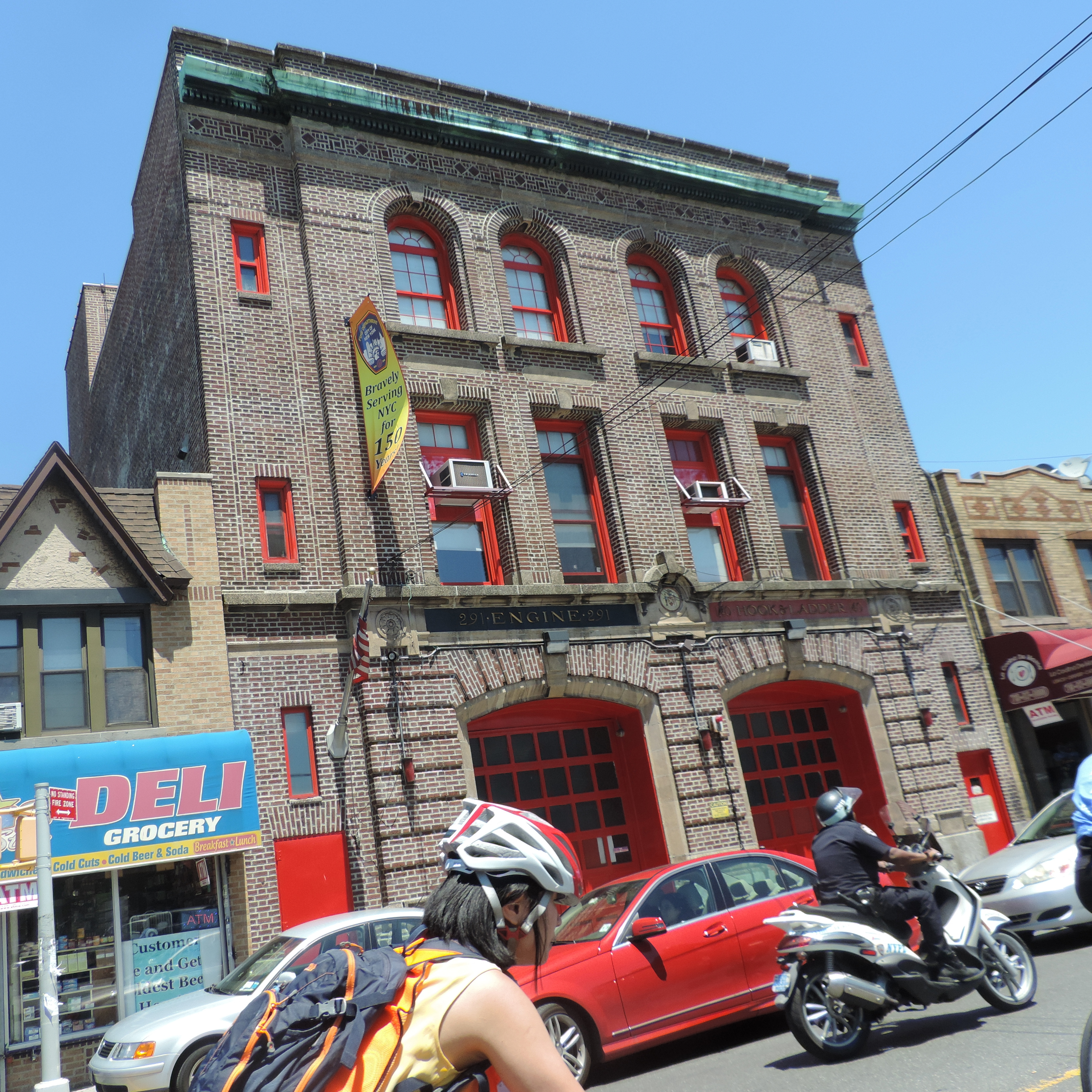 Looking north at firehouse on a sunny midday during Brooklyn Queens Tour